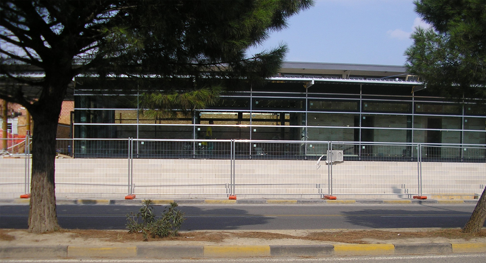 The station building of the Monserrato Gottardo railway and tram halt, in Sardinia, Italy, during the works of construction.